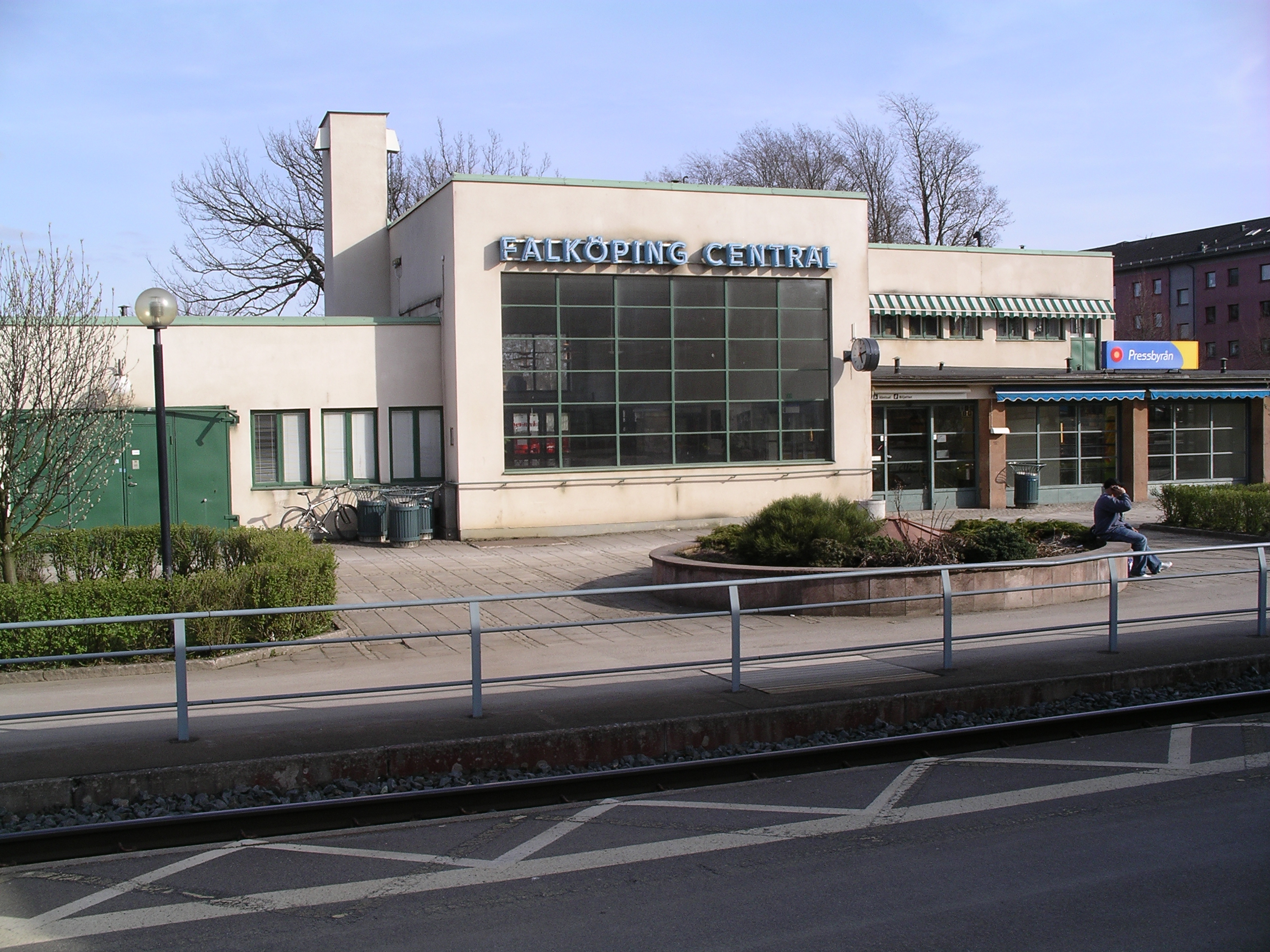 Railway station Falköping in Sweden